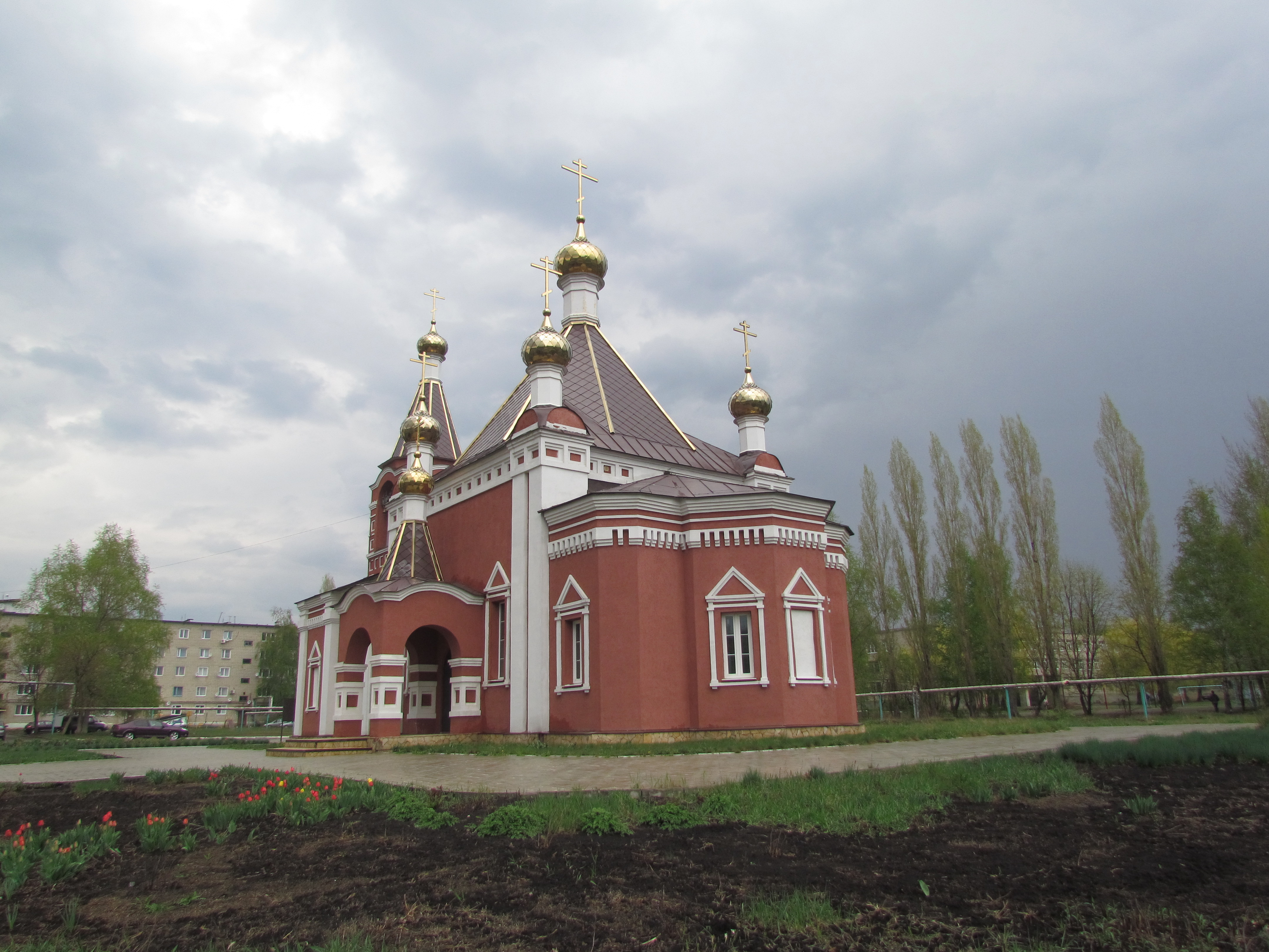 Saint Nicholas the Wonderworker in Rtishchevo